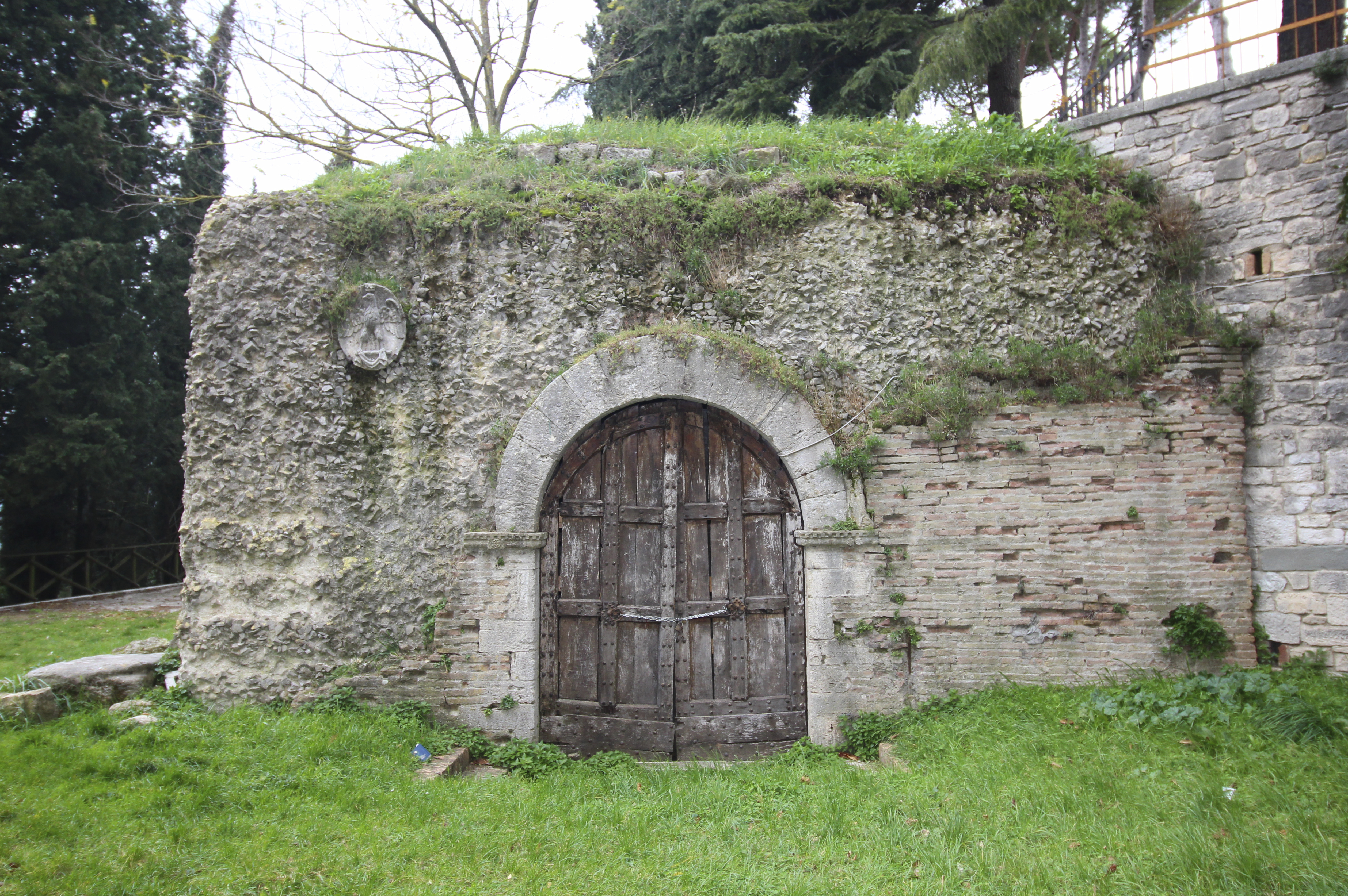 Fountain and roman Cistern, called Carcere di San Cassiano, Todi, Province of Perugia, Umbria, Italy